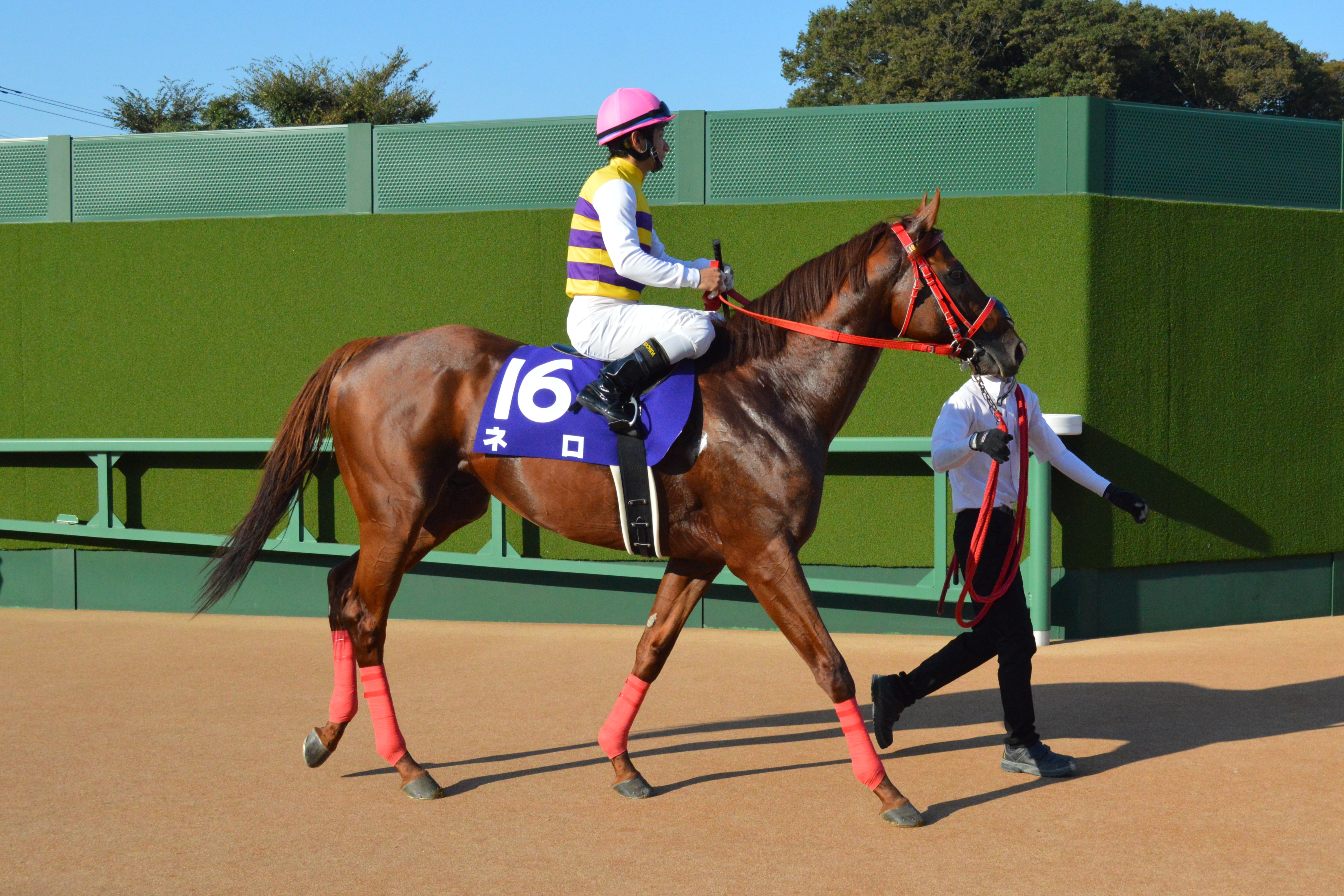 Japanese race horse Nero at Nakayama racecourse. Nakayama (JPN) 2 Oct 2016Sprinters Stakes (Grade 1) (3yo+) (Turf) 6f Firm RankHorse NameOddsAgeWgtJockeyTrainer1stRed Falx (JPN)82/10H59-0Mirco DemuroTomohito Ozeki6thNero (JPN)24/1H59-0Hiroyuki UchidaHideyuki MoriOthers are omitted. (16 horses entered in a race.)